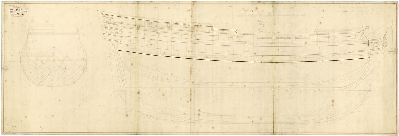 Plymouth (1722) Scale: 1:48. Plan showing the body plan, sheer lines with some inboard detail, and longitudinal half-breadth proposed (and approved) for Plymouth (1722), a 1719 Establishment 60-gun Fourth Rate, two-decker. The horizontal lines in pencil relate to the proposal to reduce the 74-gun Hampton Court (1709) to a 60-gun ship. It seems that this was not done, although her namesake successor was built as a 64-gun in 1744. PLYMOUTH 1722